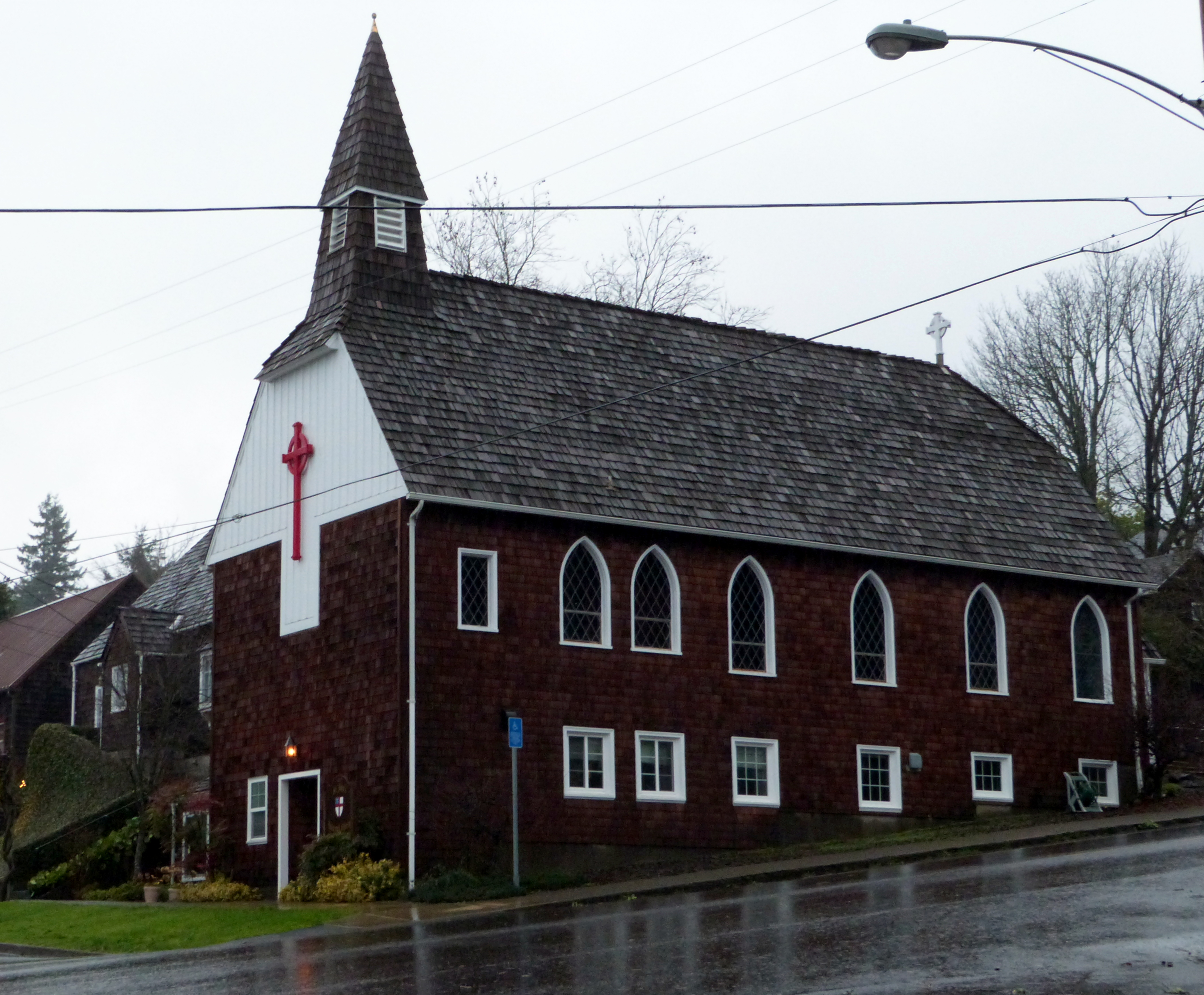 The historic St. John's Episcopal Church (built 1937), located at 110 Northeast Alder Street in Toledo, Oregon, United States, is listed on the US National Register of Historic Places as an example of the work of architect Ellis F. Lawrence.